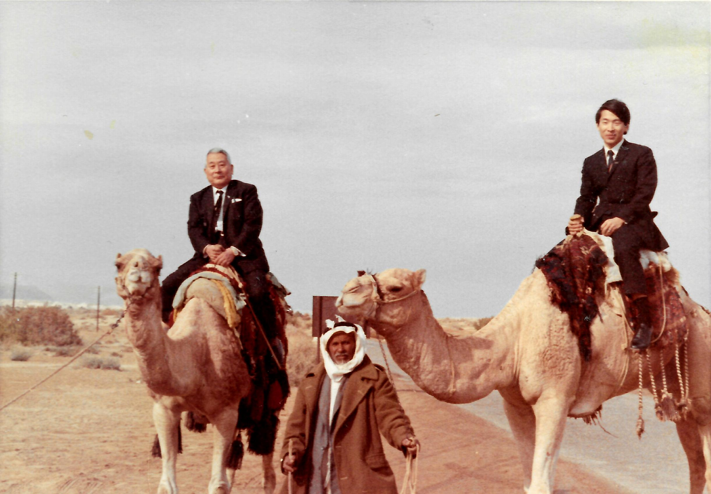 Chiune Sugihara and his son Nobuki in Israel, December, 1969. Golan Heights, Israel